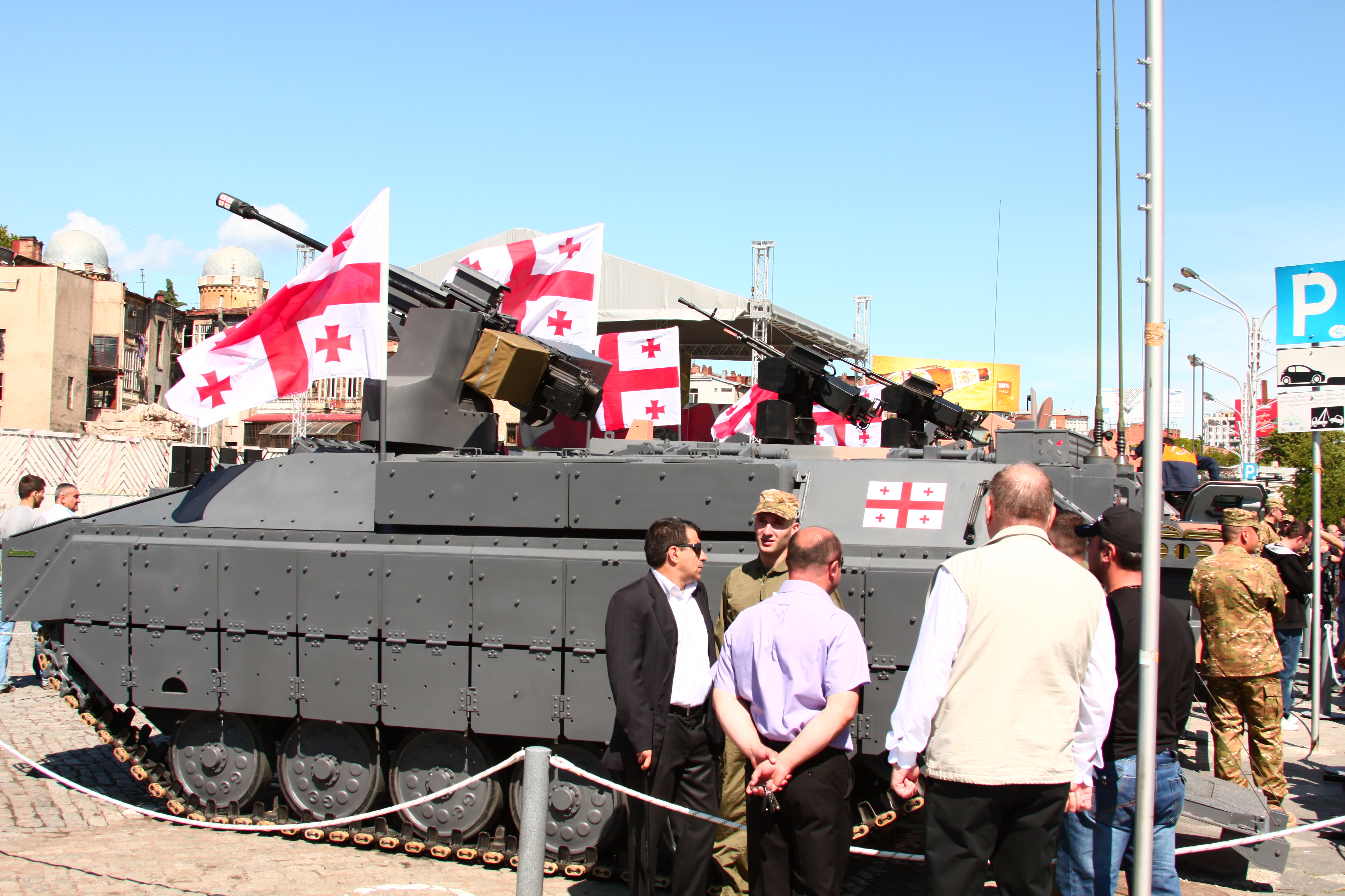 Tbilisi, Georgia — Lazika IFV on military exhibition of Independence day, 26 May, 2012